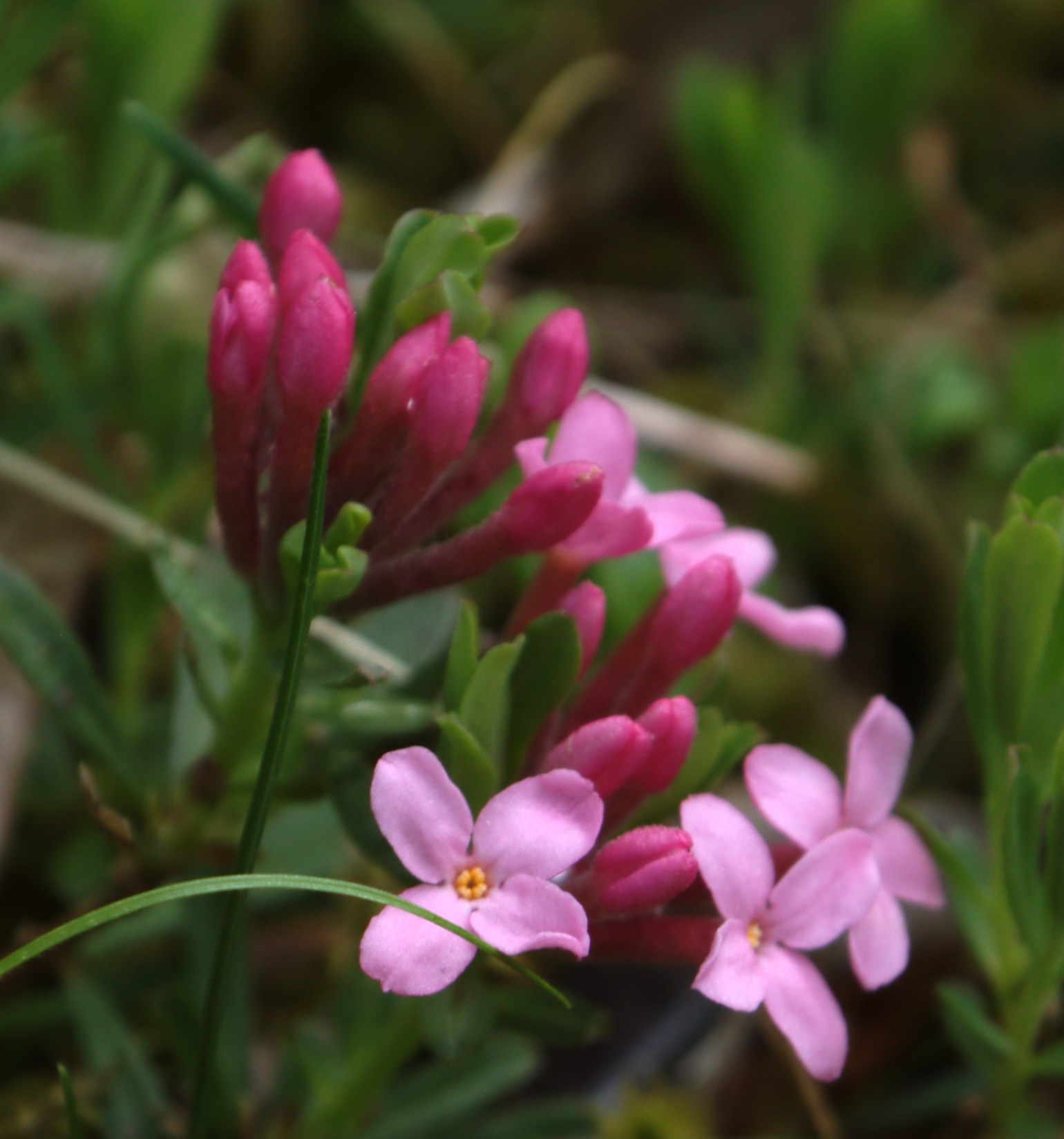 Daphne cneorum near Branžovy protected area, Loděnice, Central Bohemian Region, CZ Project: Fotíme Česko